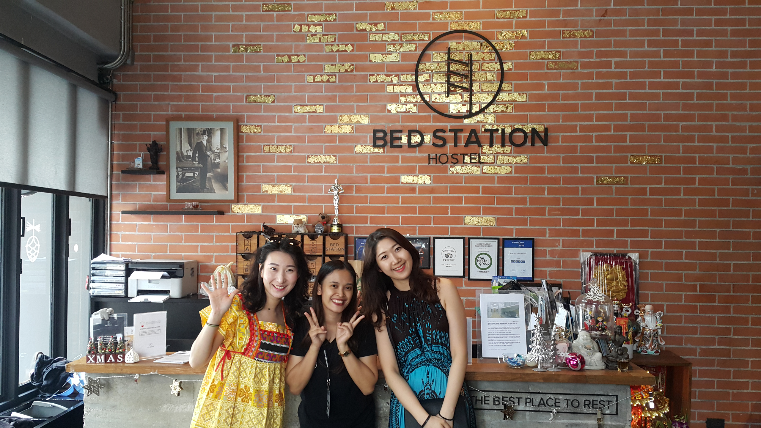 Two Asian guests taking a photo with a Thai receptionist at Bed Station Hostel in Ratchathewi, Bangkok